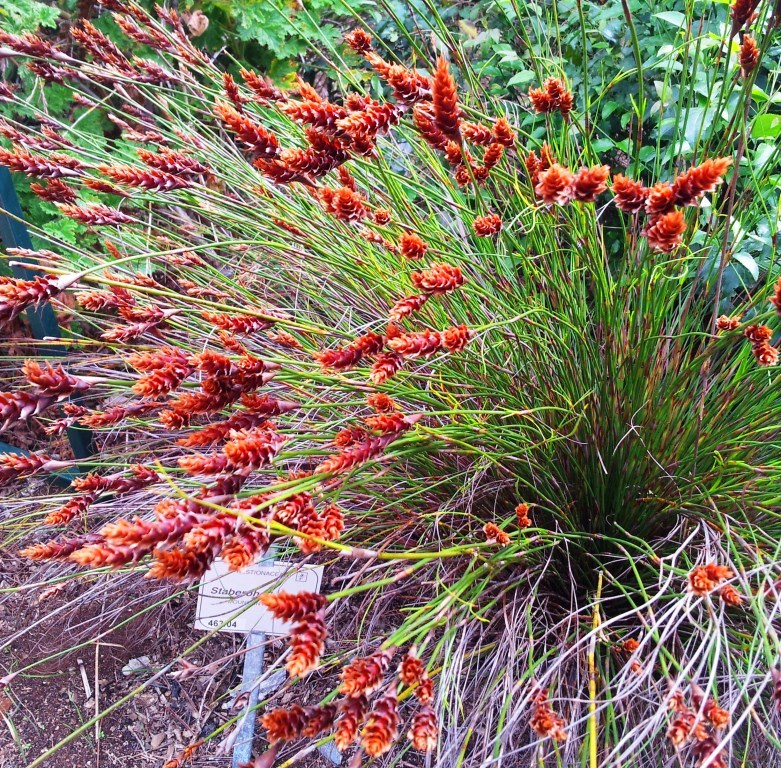 Staberoha banksii - Cape Mountain fynbos - restio - South Africa